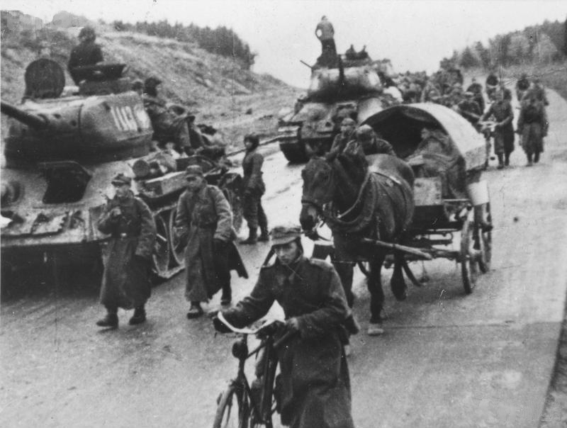 Polish Army as ally of Red Army on their way to destroy German Nazis in Berlin in 1945. Nazis were defeated. Visible T-34/85 tanks with Polish coats of arms riding on the German highway.